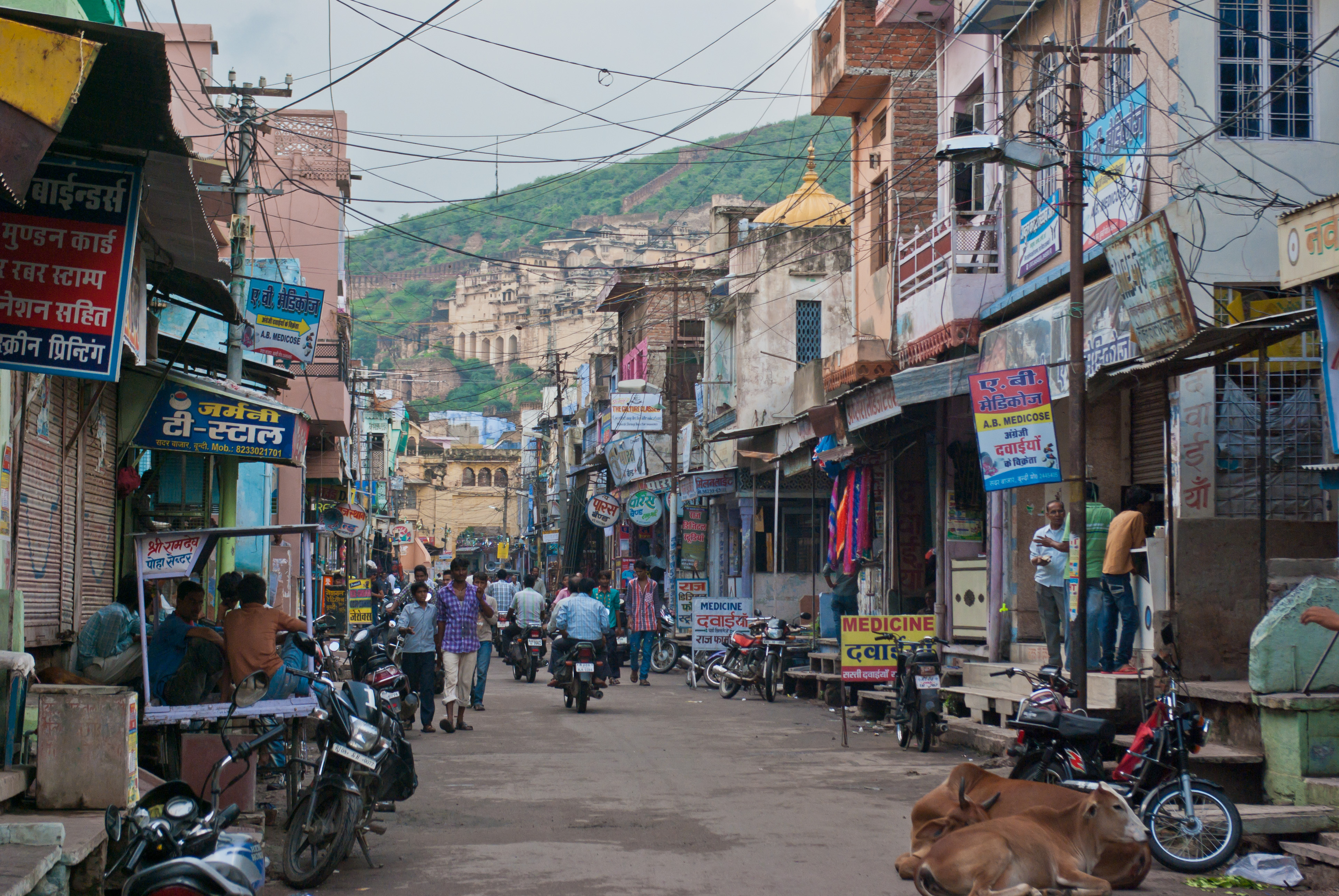 Bundi